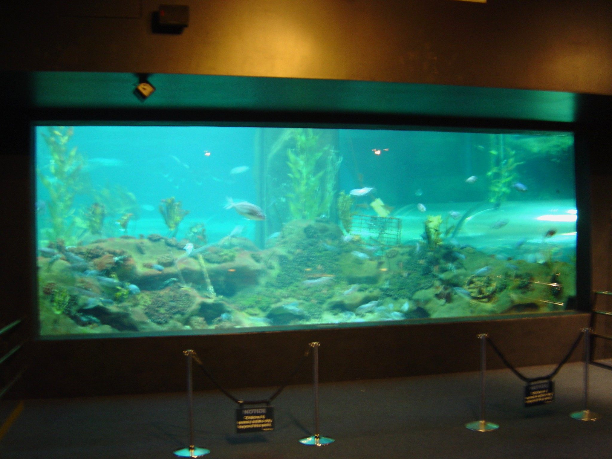 Viewing window into the main oceanarium at Napier Aquarium